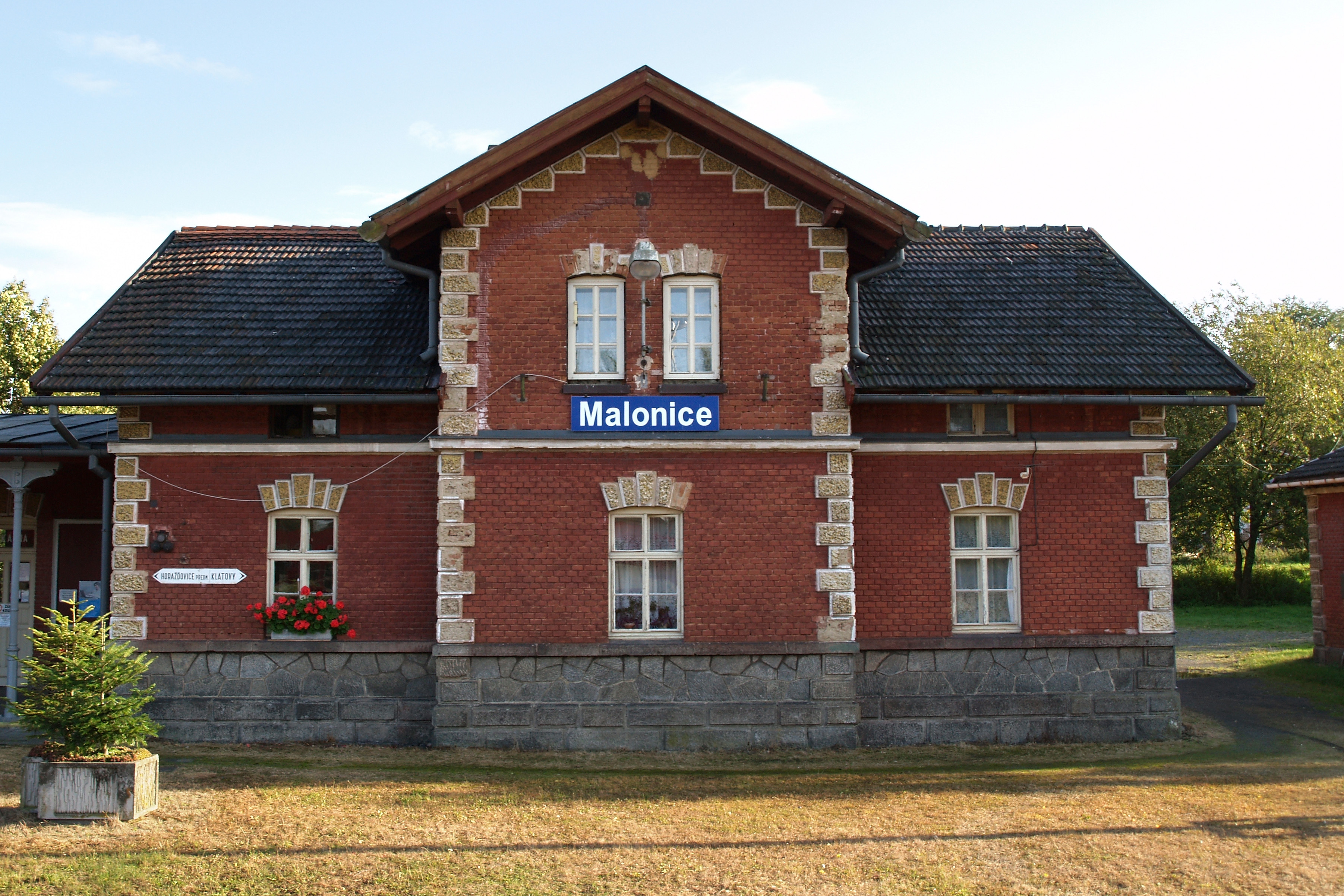 Malonice (part of Kolinec) – train station